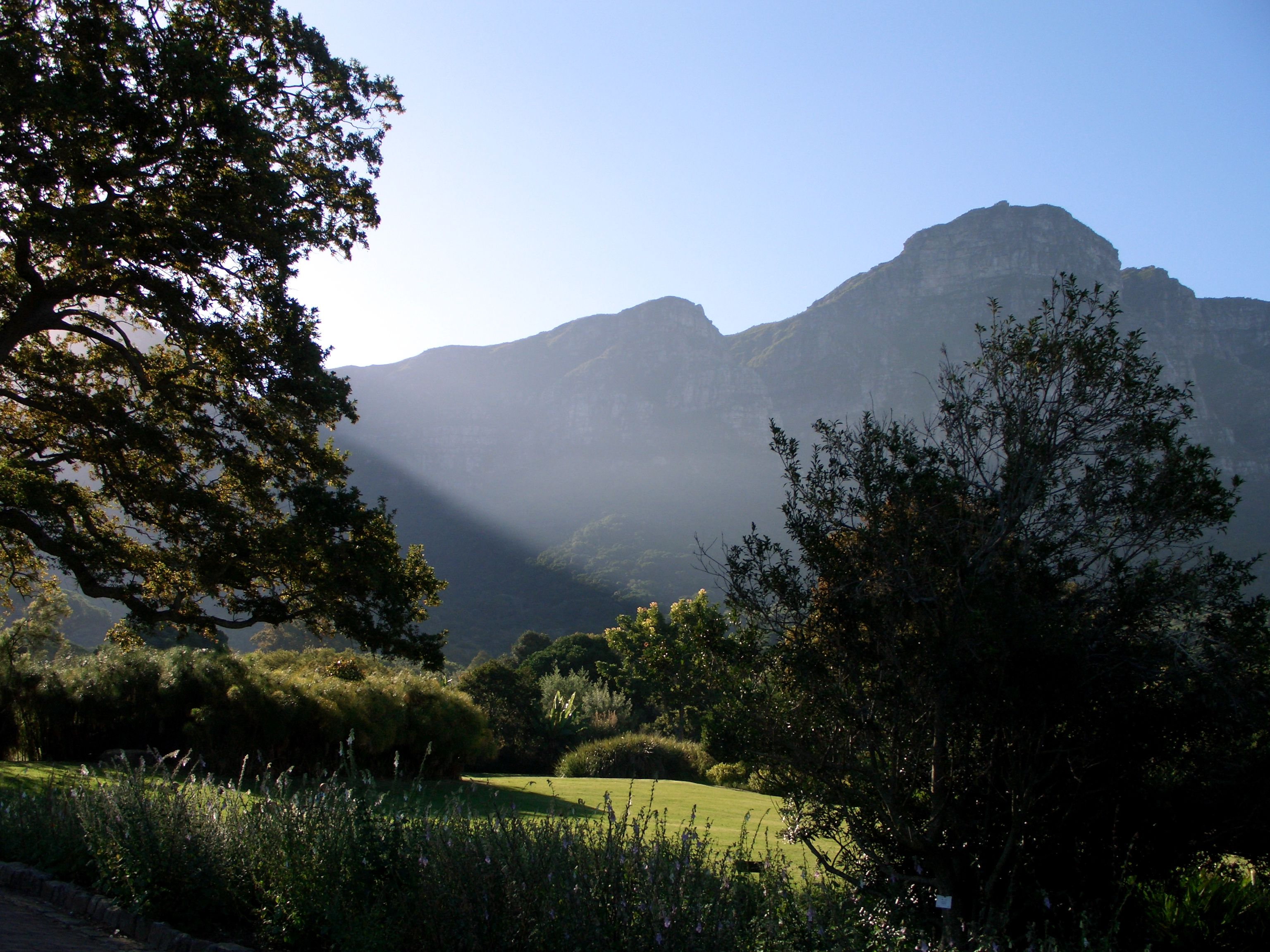 A view of Table Mountain from Kirstenbosh Botanical Gardens, near Cape Town. Photo by Salim Fadhley, taken on a Casio Exilim P700